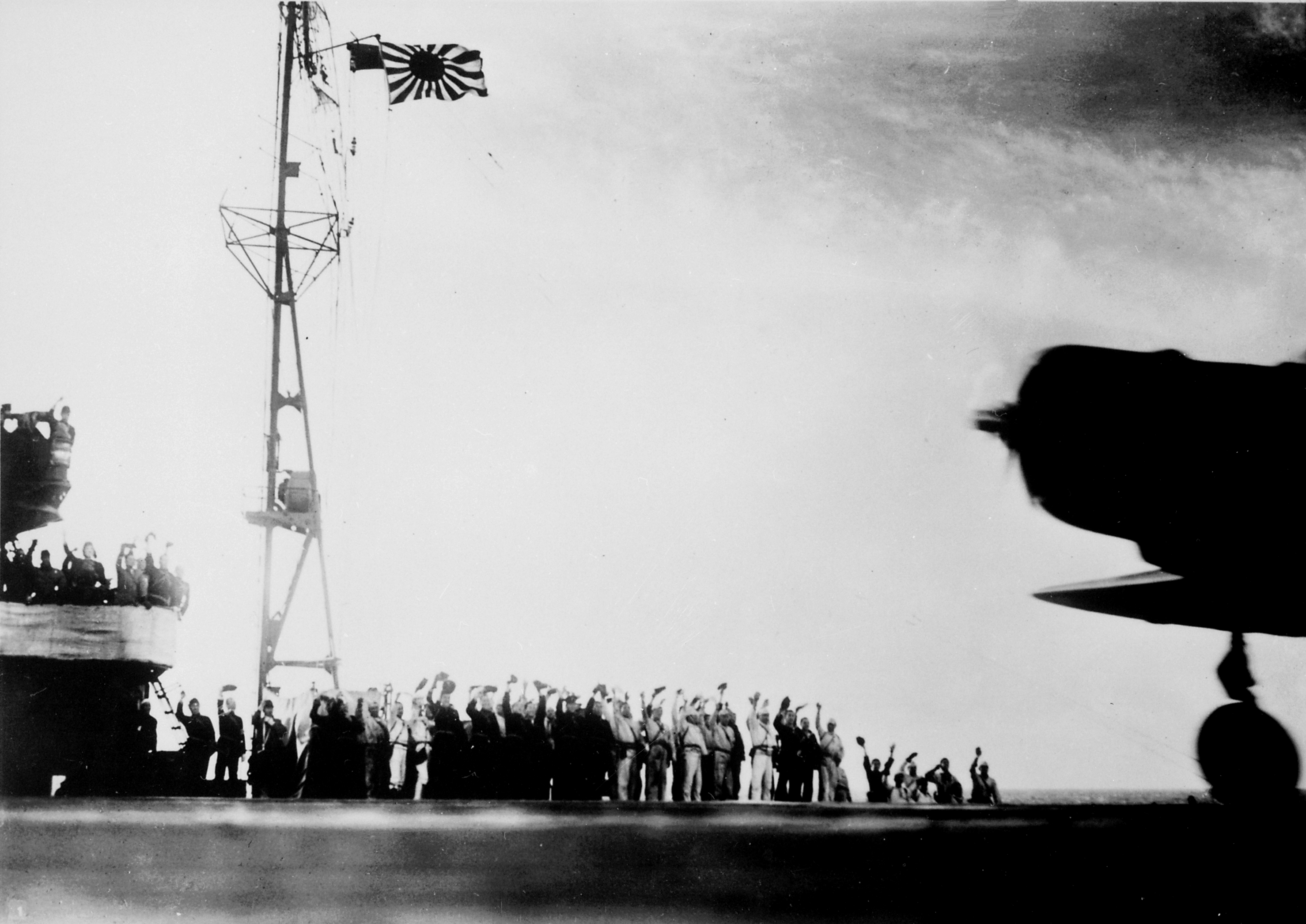 A Nakajima B5N2 torpedo plane takes off from the Japanese aircraft carrier Shokaku or Zuikaku to attack Pearl Harbor, Hawaii, on 7 December 1941.Original caption: "Captured Japanese photograph taken aboard a Japanese carrier before the attack on Pearl Harbor, December 7, 1941."